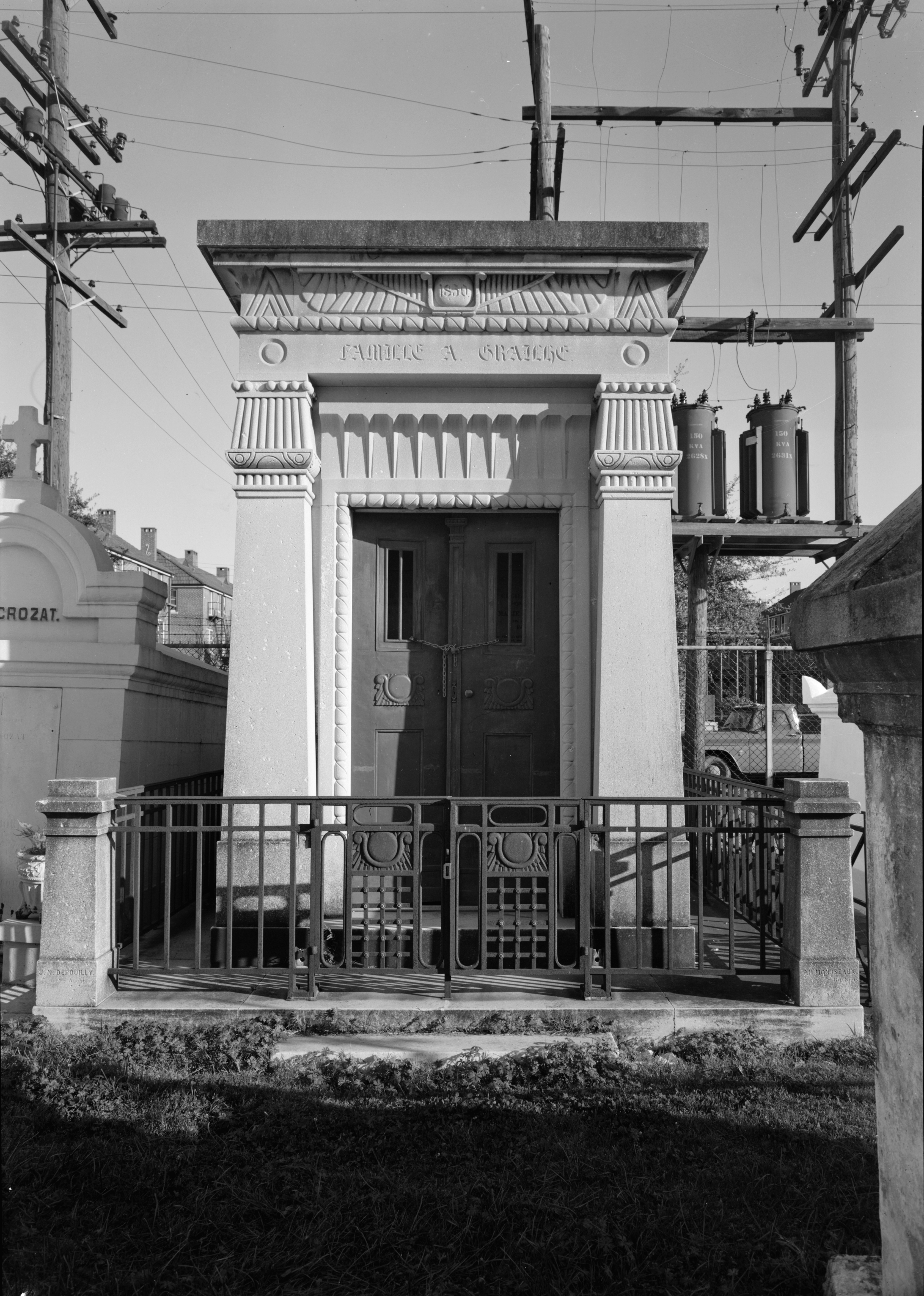 St. Louis Cemetery #2, Claiborne Avenue, New Orleans: Grailhe Family Tomb. 19th century Egyptian Revival architecture.